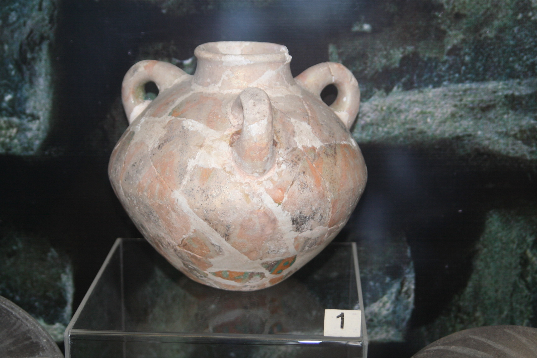 Glazed vessel brought from Assyria and found in Mingachevir. 13th-8th cc. B.C.